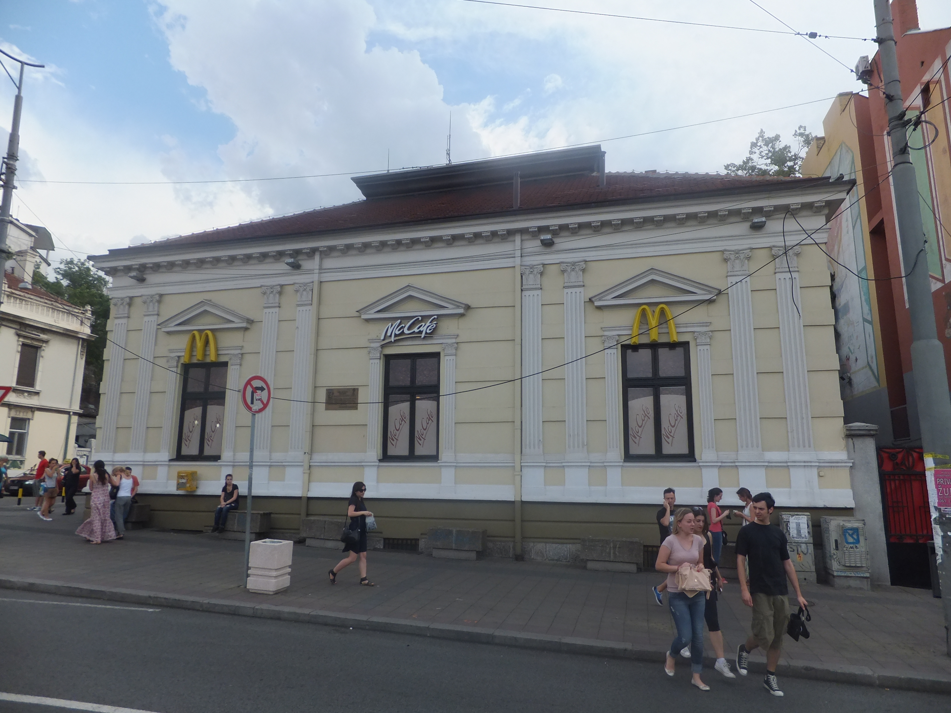 McDonald's building in Slavija Square in Belgrade, Serbia. This is a house of a 19th/20th century Serbian stomatologist Atanasije Puljo